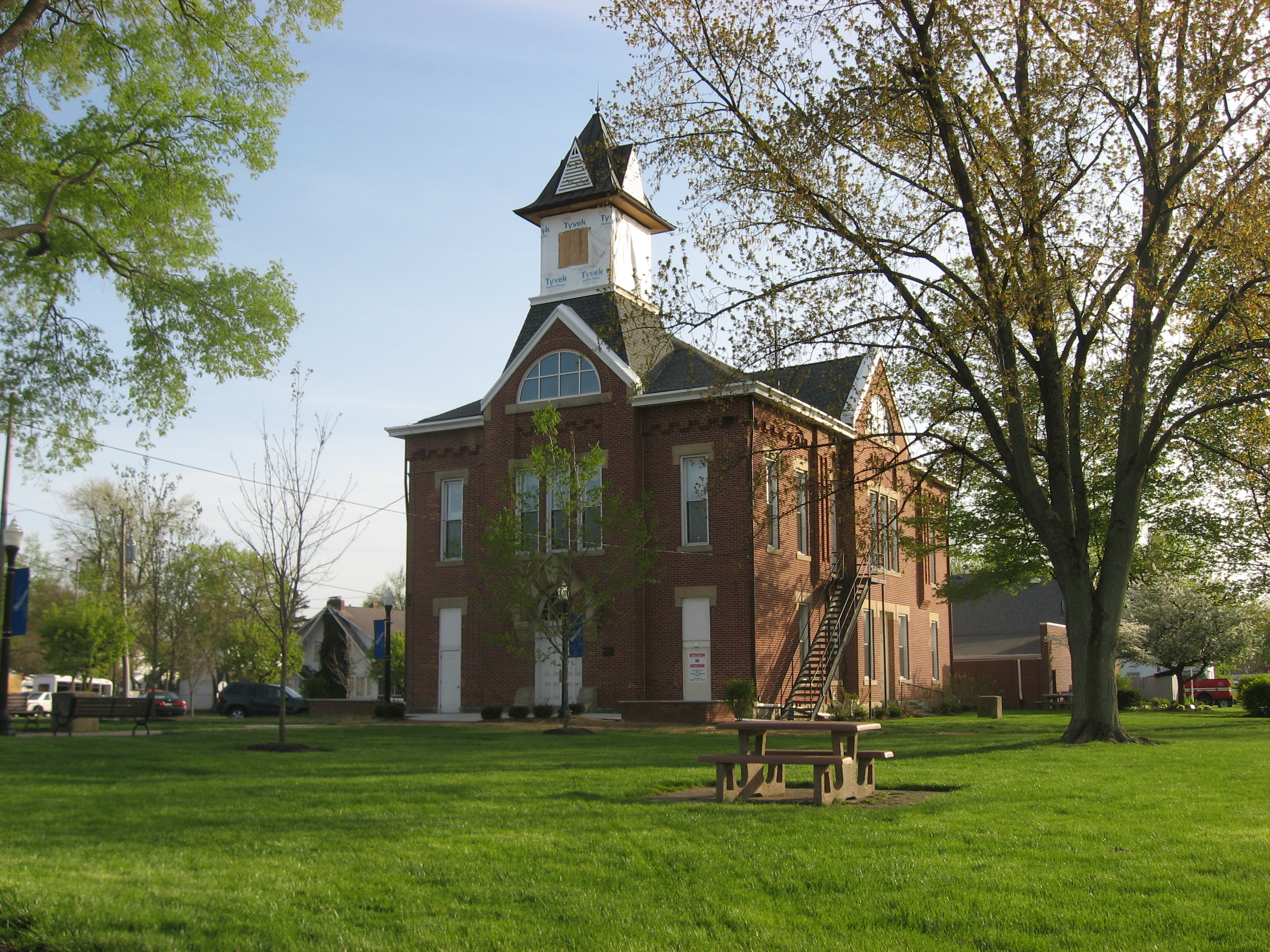 Front and northern side of the Monroe Township Hall-Opera House, located at 1 S. Main Street in downtown Johnstown, Ohio, United States. Built in 1884, it is listed on the National Register of Historic Places.